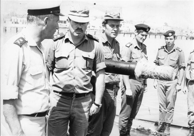 Officers of INS Reshef inspected by Admiral Beni Telem before departure on cross Medditterrannean sailing